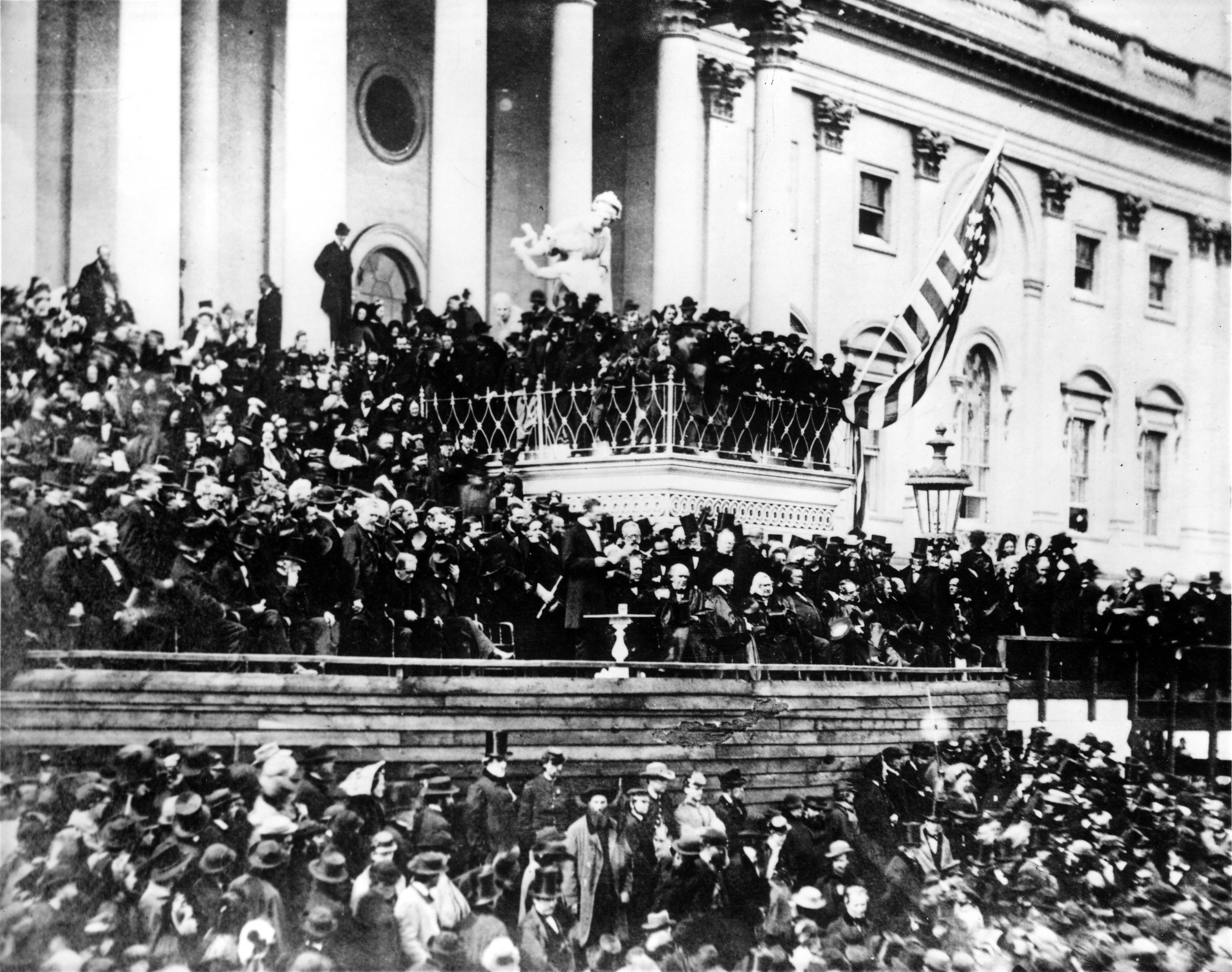 The second inaugural address of Abraham Lincoln, given on 4 March 1865 on the east portico of the U.S. Capitol.